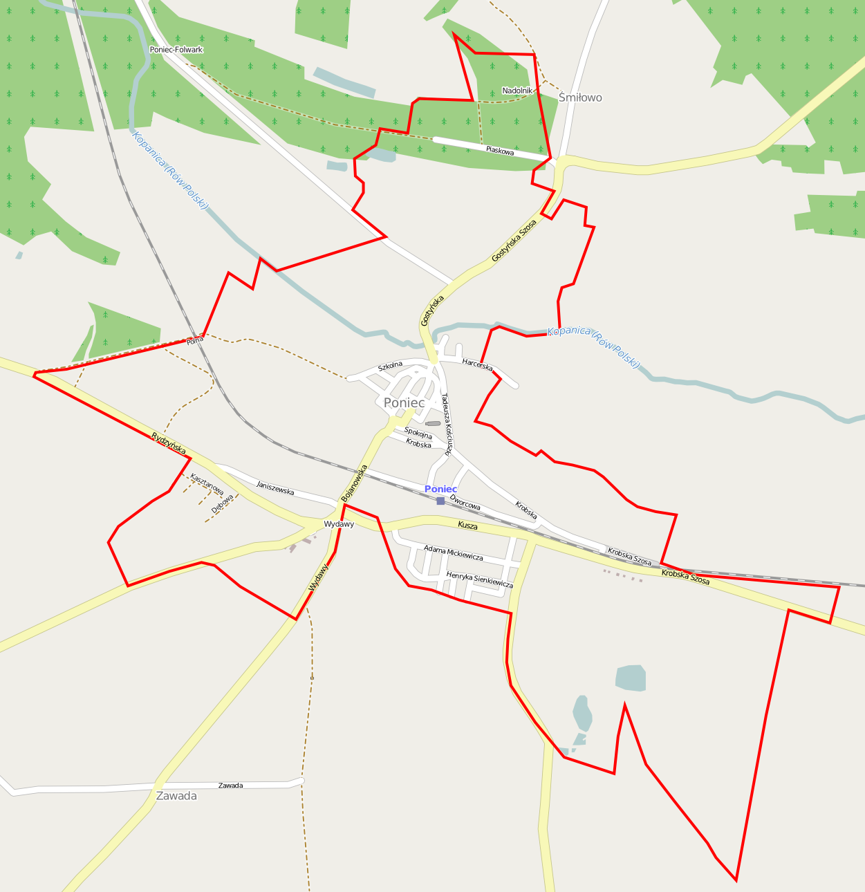 Map of Poniec, Poland This map of Poniec was created from OpenStreetMap project data, collected by the community. This map may be incomplete, and may contain errors. Don't rely solely on it for navigation. Border coordinates51.779316.7826←↕→16.832651.7475